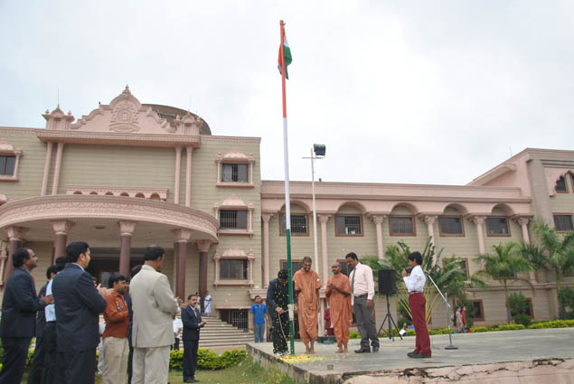 Swaminarayan Gurukul International School Bidar outer view1